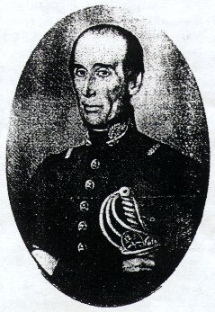 Miguel Cajaraville "Miguel de los Santos Cajaraville" (1794-1852 was an Argentine military who participated in the war of independence.